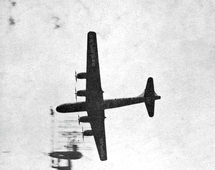 A U.S. Army Air Forces Boeing B-29 Superfortress flies over Nagasaki, Japan, in September 1945. Note the inscription "PW SUPPLIES" painted under the wings, denoting the mission of the aircraft was to drop supplies to Allied prisoners of war in Japan. The SK-1 radar of the U.S. Navy light cruiser USS Mobile (CL-63) is visible in the foreground.